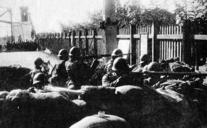 Japanese soldiers of the 77th regiment of the IJA 20th division at Langfang station, 26 July 1937